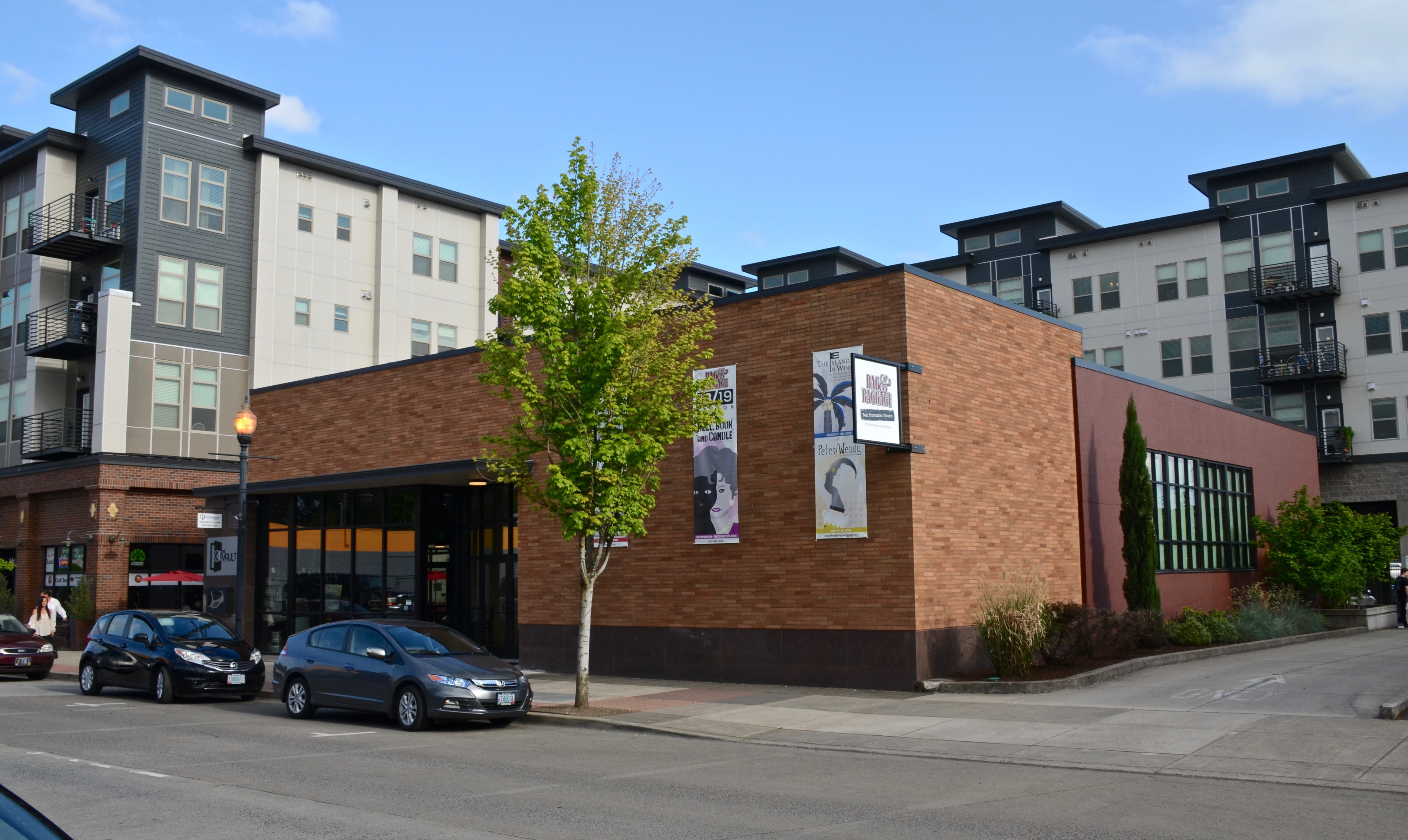 Bag & Baggage Productions' main performance venue since 2017 is named "The Vault" theater, the name being a reference to the building's former use as a bank building (originally a First National Bank, which became part of First Interstate Bank, and lastly Wells Fargo Bank). The last use of the building as a bank ended in 1997. The theater is located on Main Street between 3rd and 4th Avenues in downtown Hillsboro.